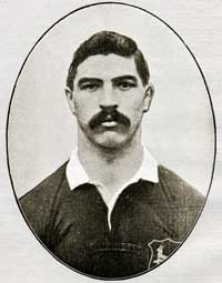 Paul Roos, Springbok Captain, of the first South African touring rugby team to the British Isles in 1906 This picture is the copyright of the Lordprice Collection and is reproduced on Wikipedia with their permission